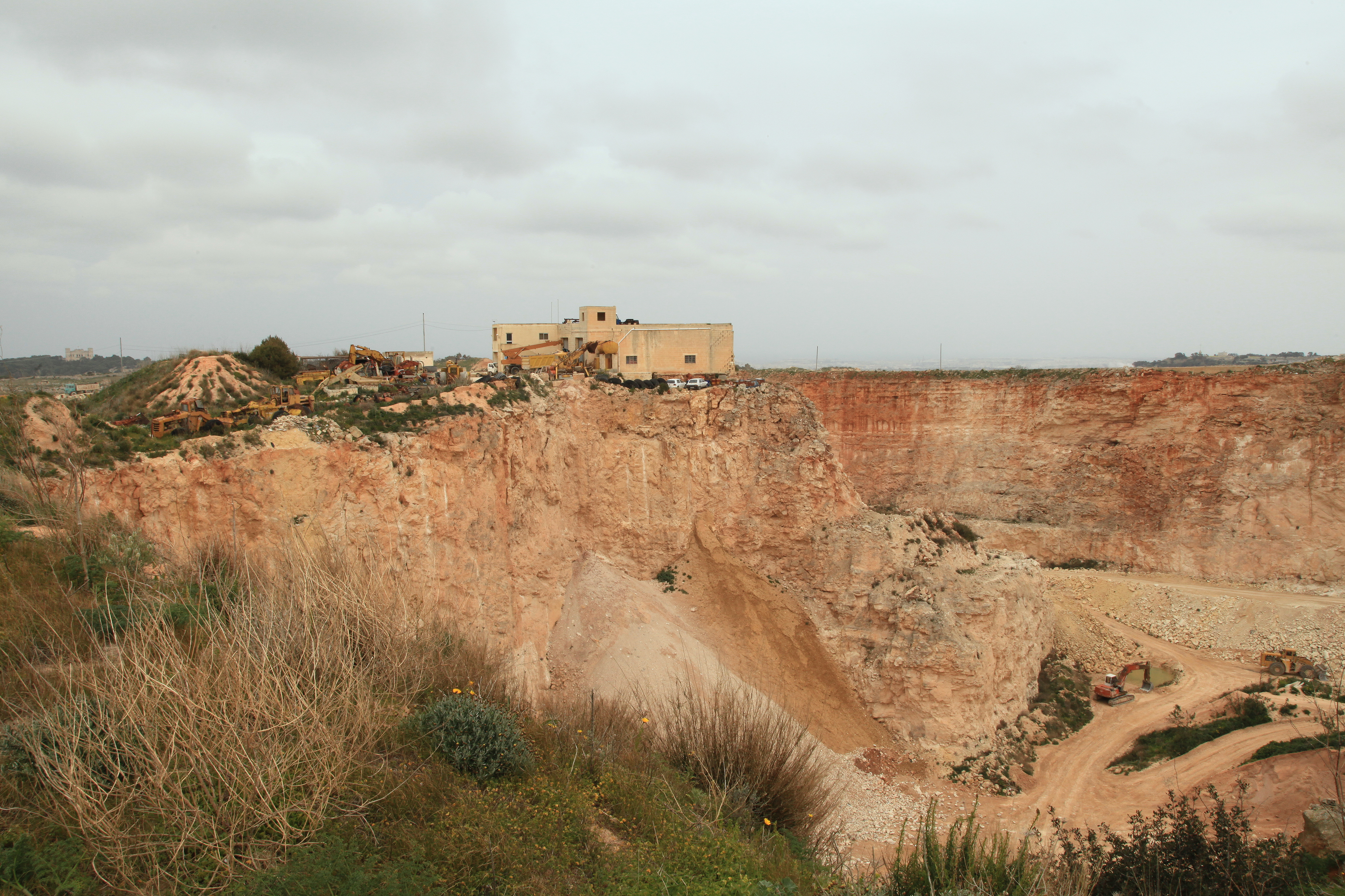 Quarries between Triq Panoramika at the Dingli Cliffs in the southwest and the Misraћ Gћar il-Kbir area in the northeast in Siġġiewi, Malta